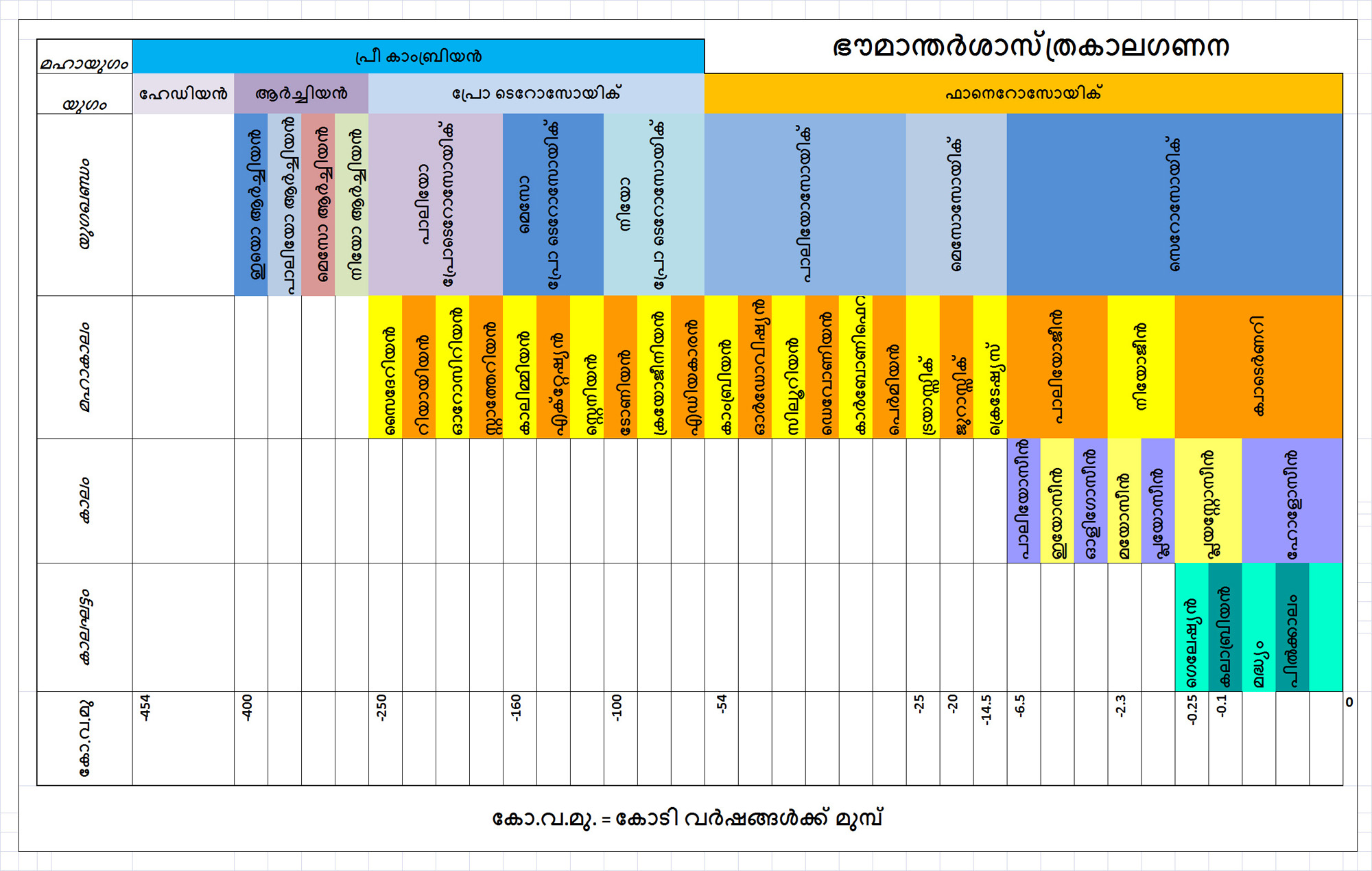 Chart showing the geological periods in the history of earth.